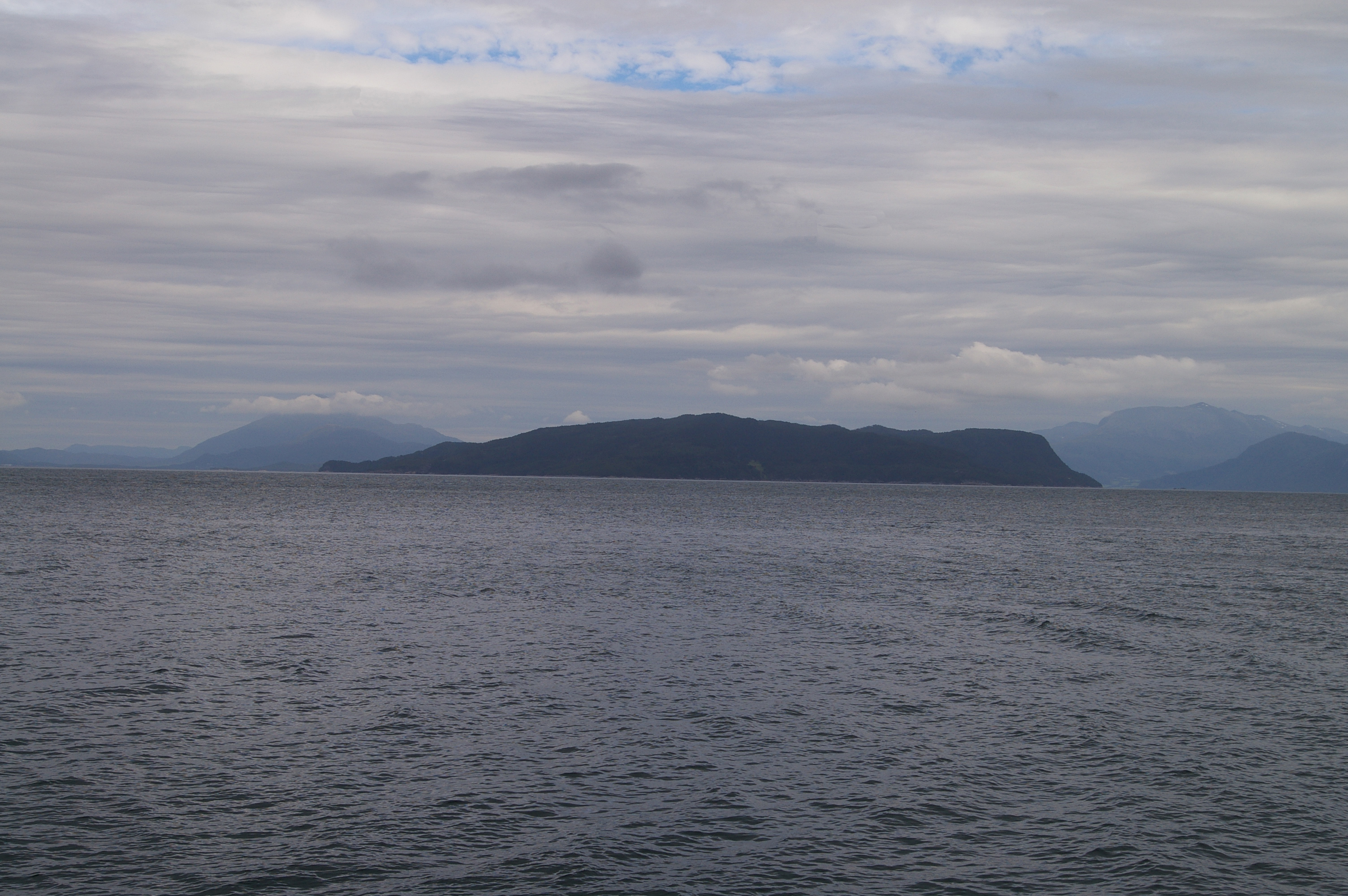 Sekken Island in Romsdal, Norway.